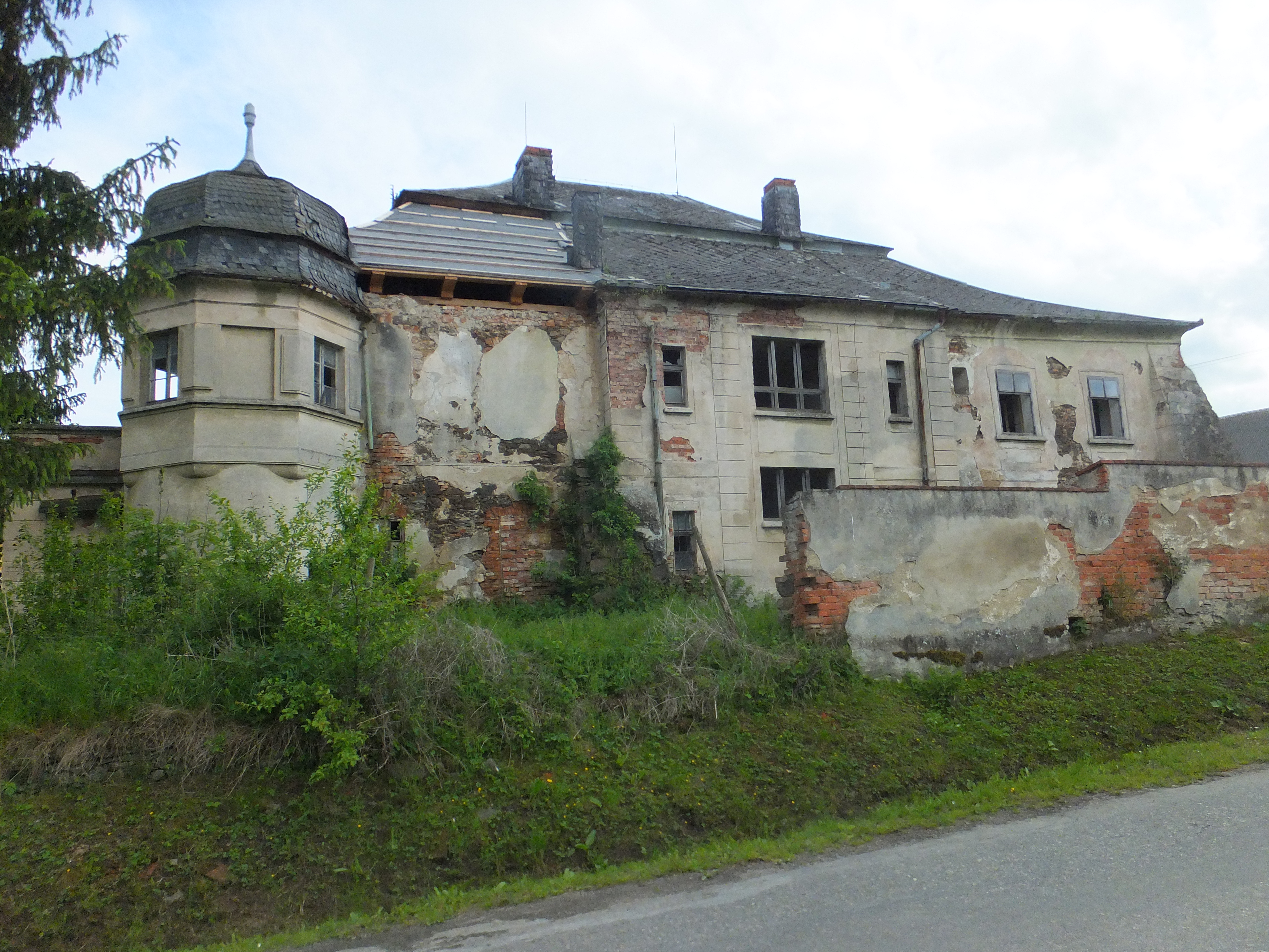 The castle a Nedražice